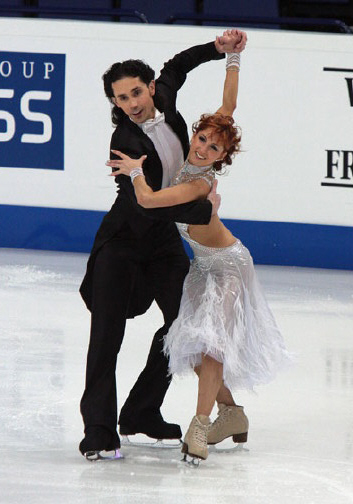 Jana Khokhlova & Sergei Novitski during their Finnstep compulsory dance at the 2009 European Figure Skating Championships